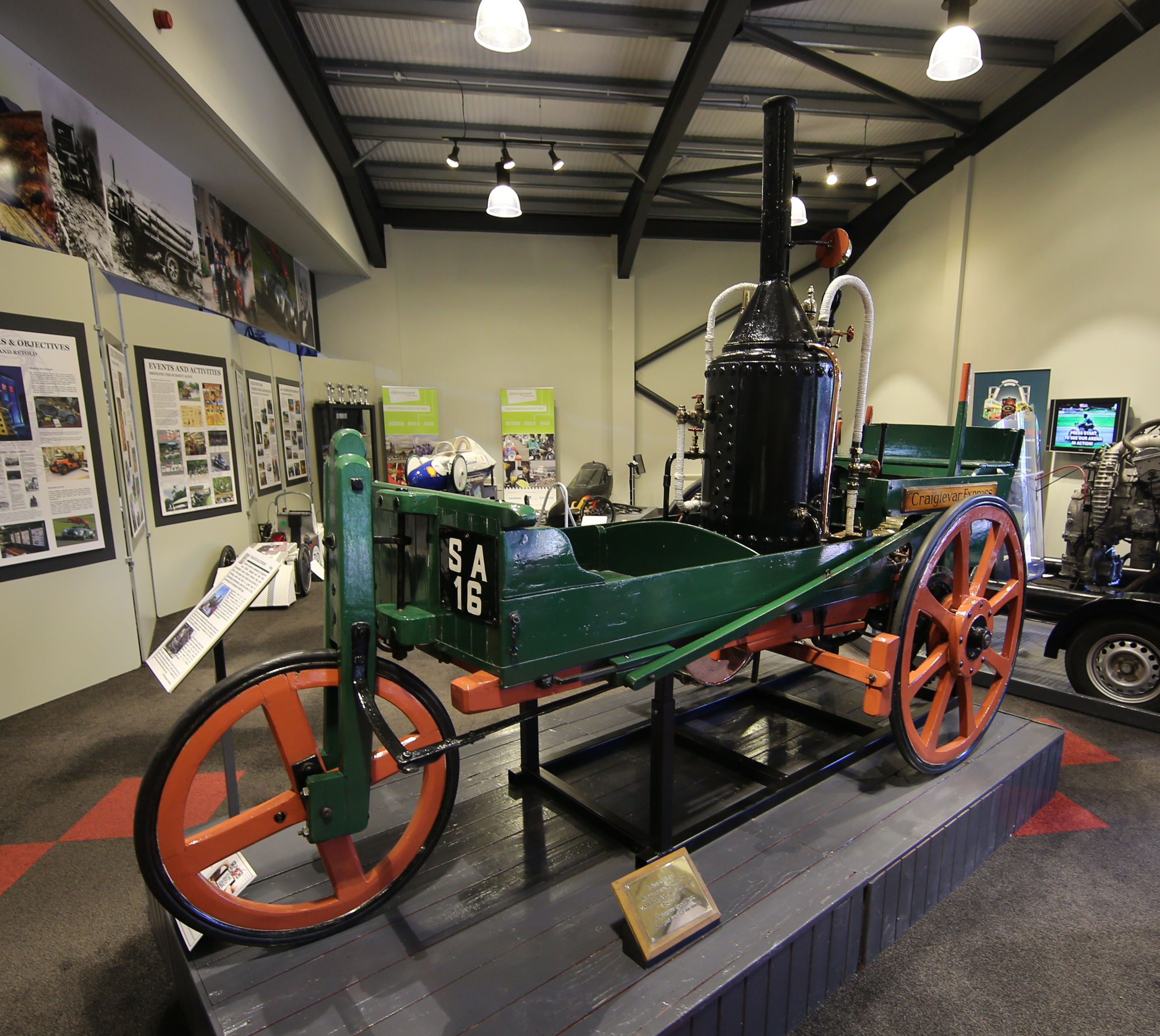 Photo of the Craigievar Express in the Grampian Transport Museum